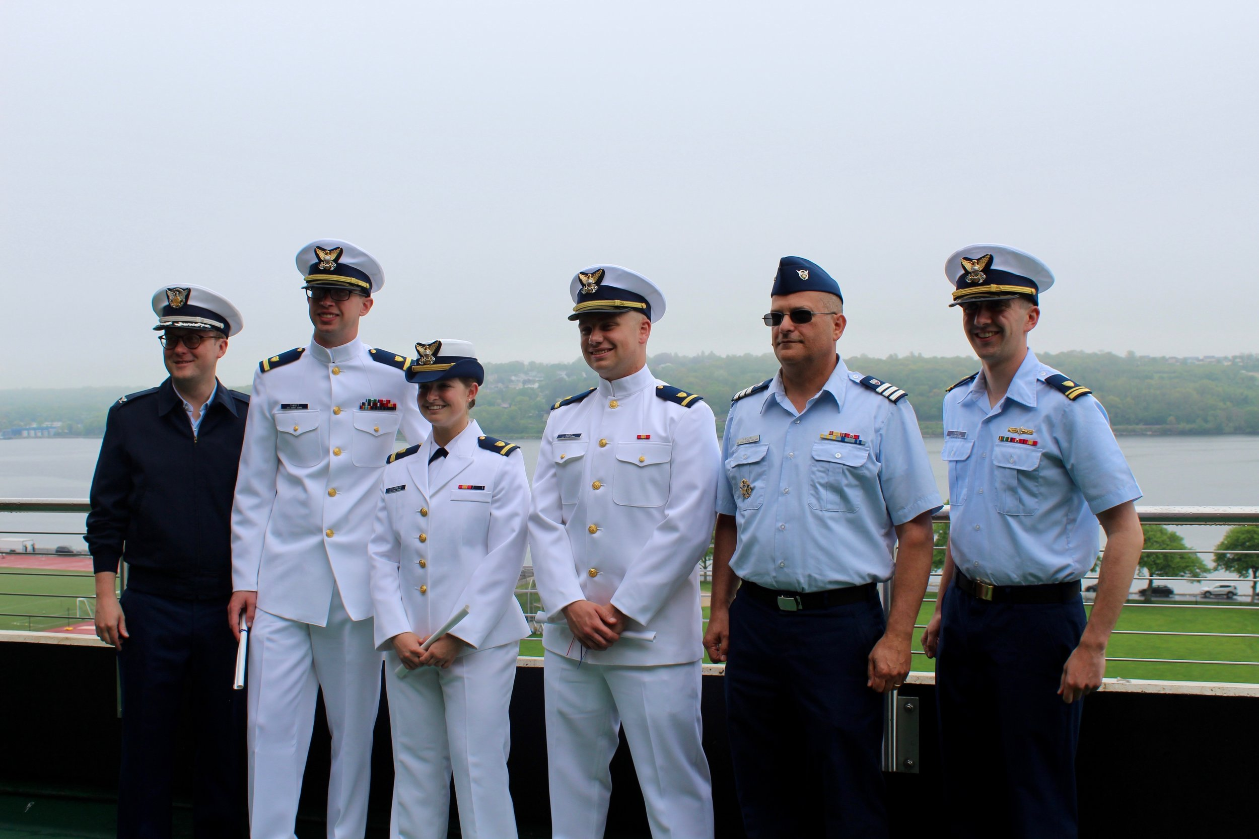 They are pictured below with Andrew Welch - Director of Strategic Planning, Dr. Graig Arcuri - Division Chief for AUP, and LTJG Chris Papas - Operations Branch Chief (2015 Unit William and Mary alumnus and OCS grad). Appearing from left: Mr. Welch, ENS Thrift, ENS Sternberg, ENS Marx, Dr. Arcuri, LTJG Papas. (Photo: Melissa Kelly)